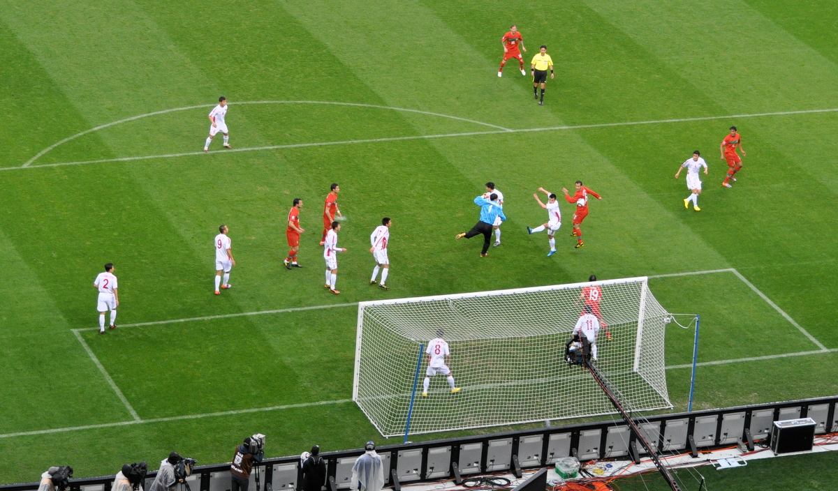 Early attempt on goal by Carvalho